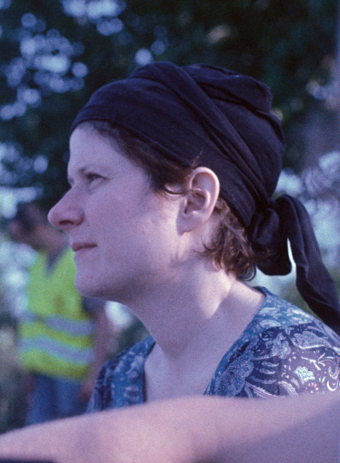 Director Alice Nellis with DOP David Čálek during shooting of Mamas&Papas